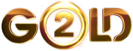 GOLD2tvLogo